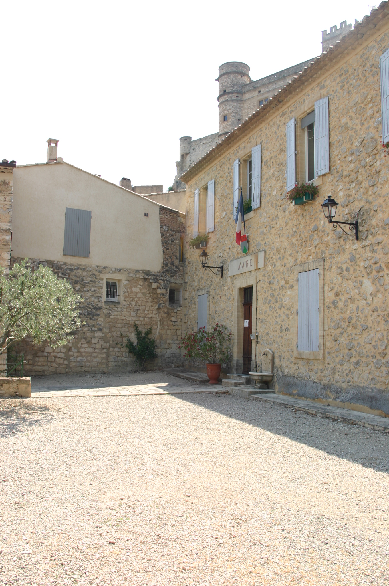 Mayor's office at Le Barroux (France).